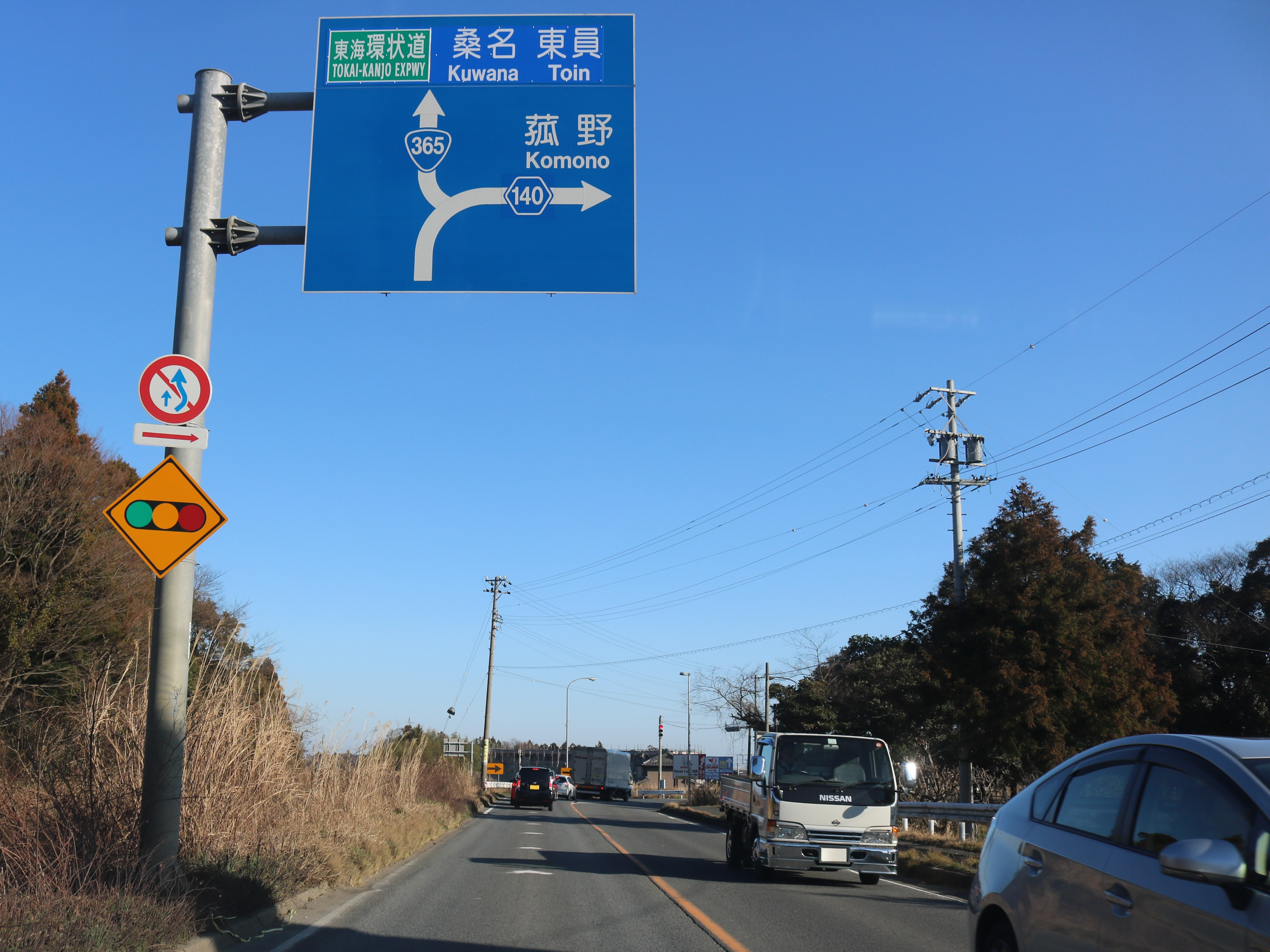 Route 365 and Mie Prefectural Road Route 140 in Daian, Inabe, Mie Prefecture, Japan.